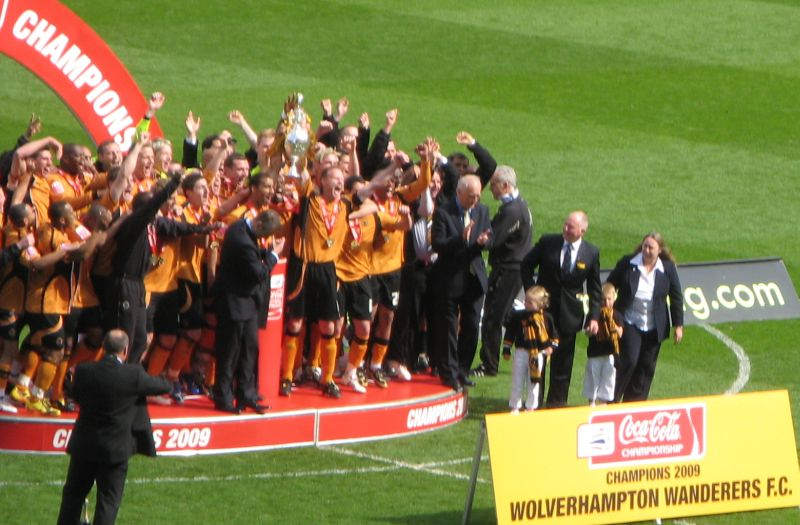 Wolves, Football League Champions. Molineux Stadium 3 May 2009.